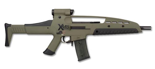 Sideview of XM8 rifle